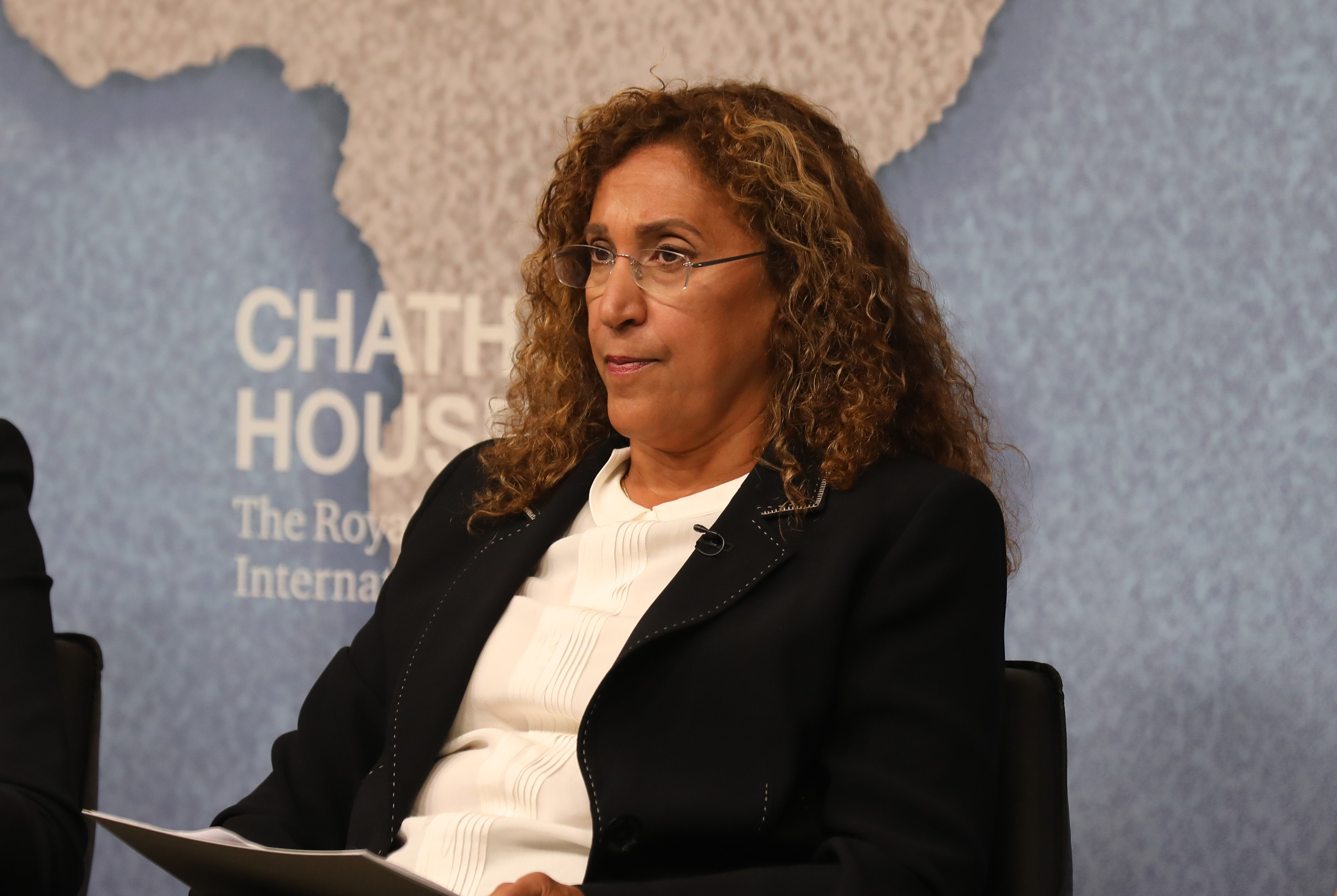 The UK-Saudi Arabia Relationship: A Closer Look, 4 September 2018, cht.hm/2IoxWlO